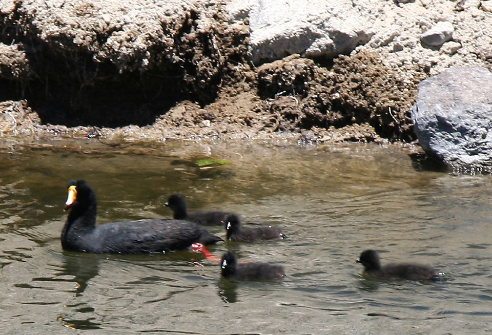 Above 4000m, I could just about manage to hold the camera steady. Note the distinctive red legs. Fulica gigantea